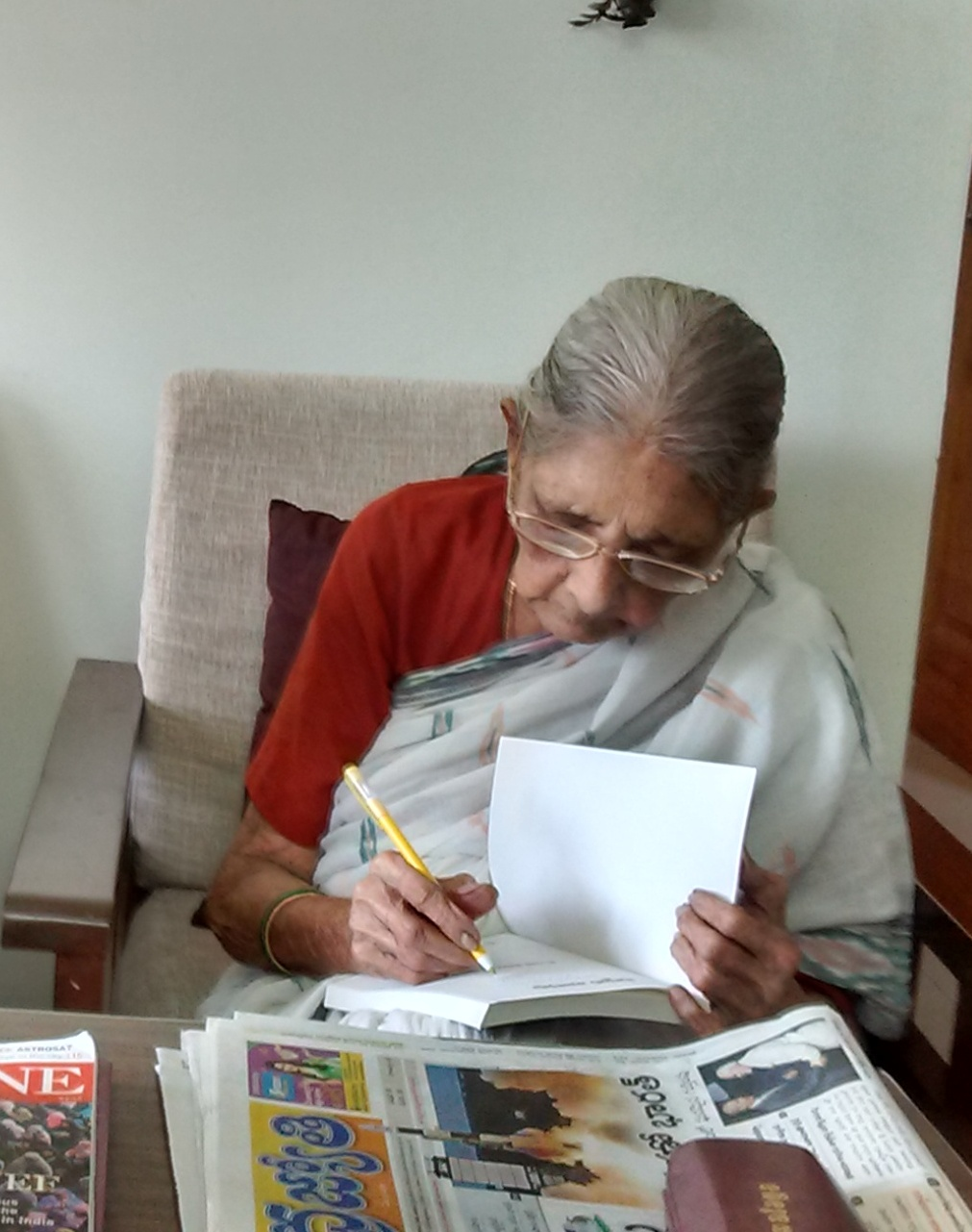 The image of Koteswaramma in Visakhapatnam, at her residence.